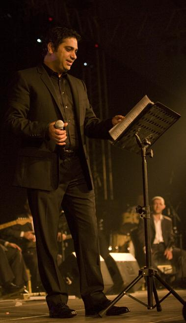 Fadl Shaker is a famous Lebanese singer.